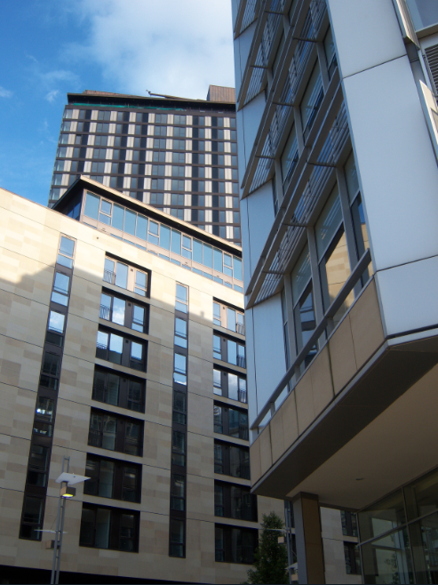 St Paul's Place Sheffield, a new mixed use development in the city centre. In the top left corner is the St Paul's Tower, below it is Tower 2 of the same development and to the right is another of the buildings on the otherside of the complex